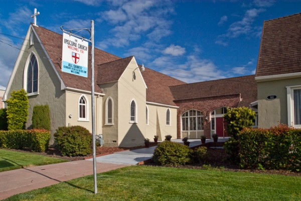 Sanctuary of All Saints, San Leandro